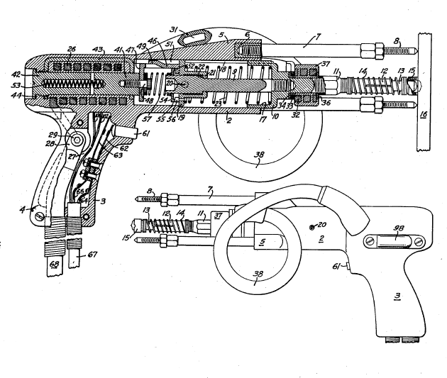 Stud welding machine; Ted Nelson; 1944